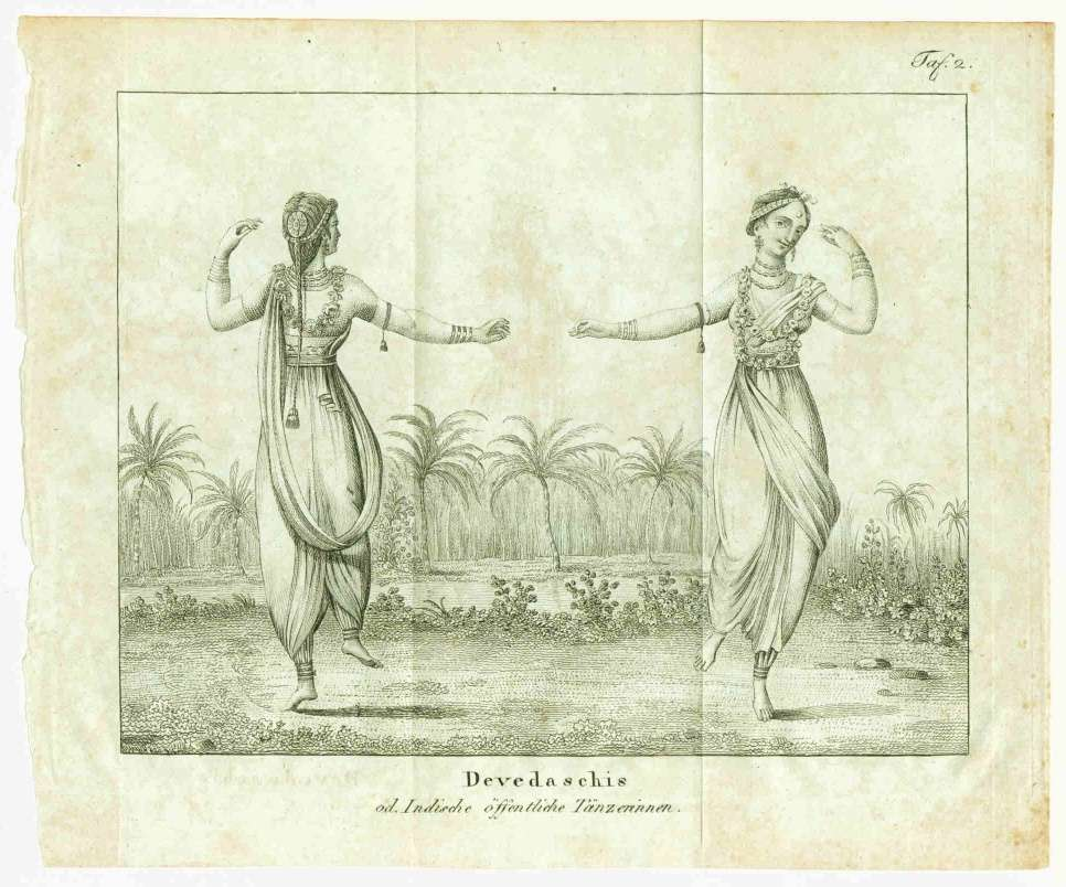 "Devedaschis," a German print, 1700's* Source: ebay, Feb. 2009